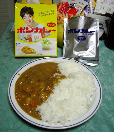 ボンカレー(辛口)の調理例 / Cooking example of the Bon curry (hot)